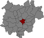 Location of Sant Fruitós de Bages in Bages